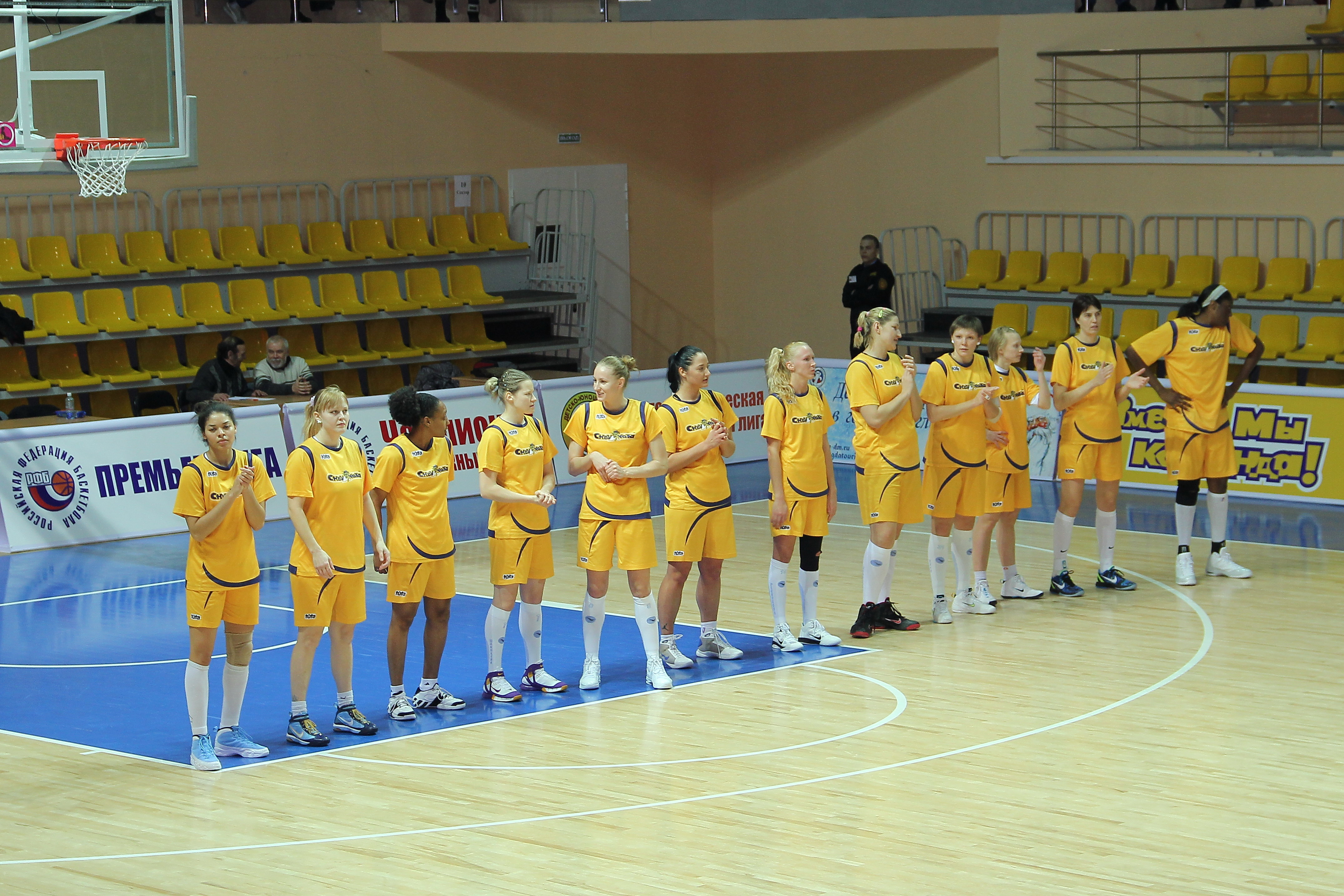 Russia, Women's basketball club «Vologda-Chevakata» (Vologda)